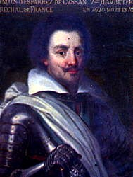 ArtistUnknownTitle